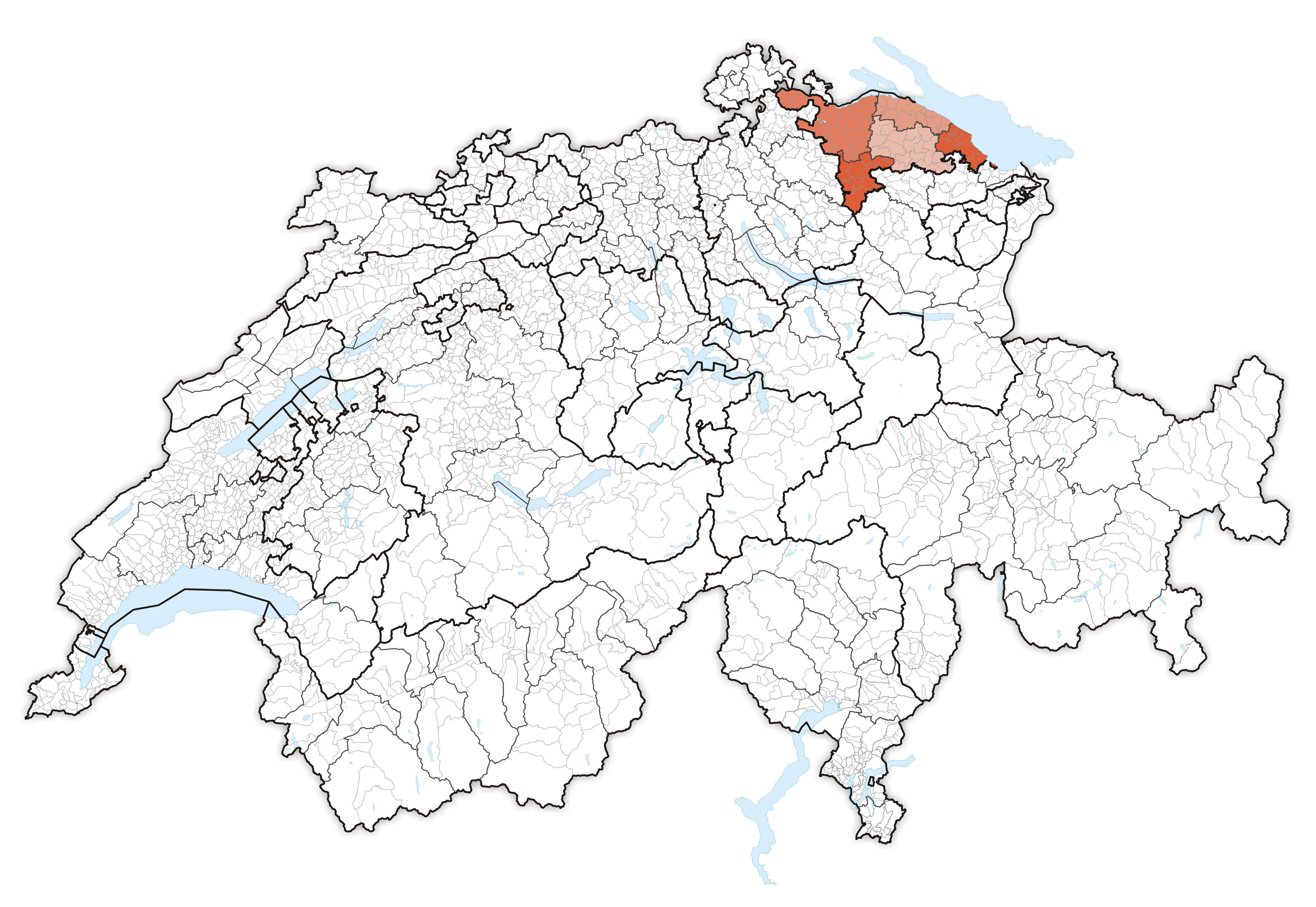 Canton Thurgau